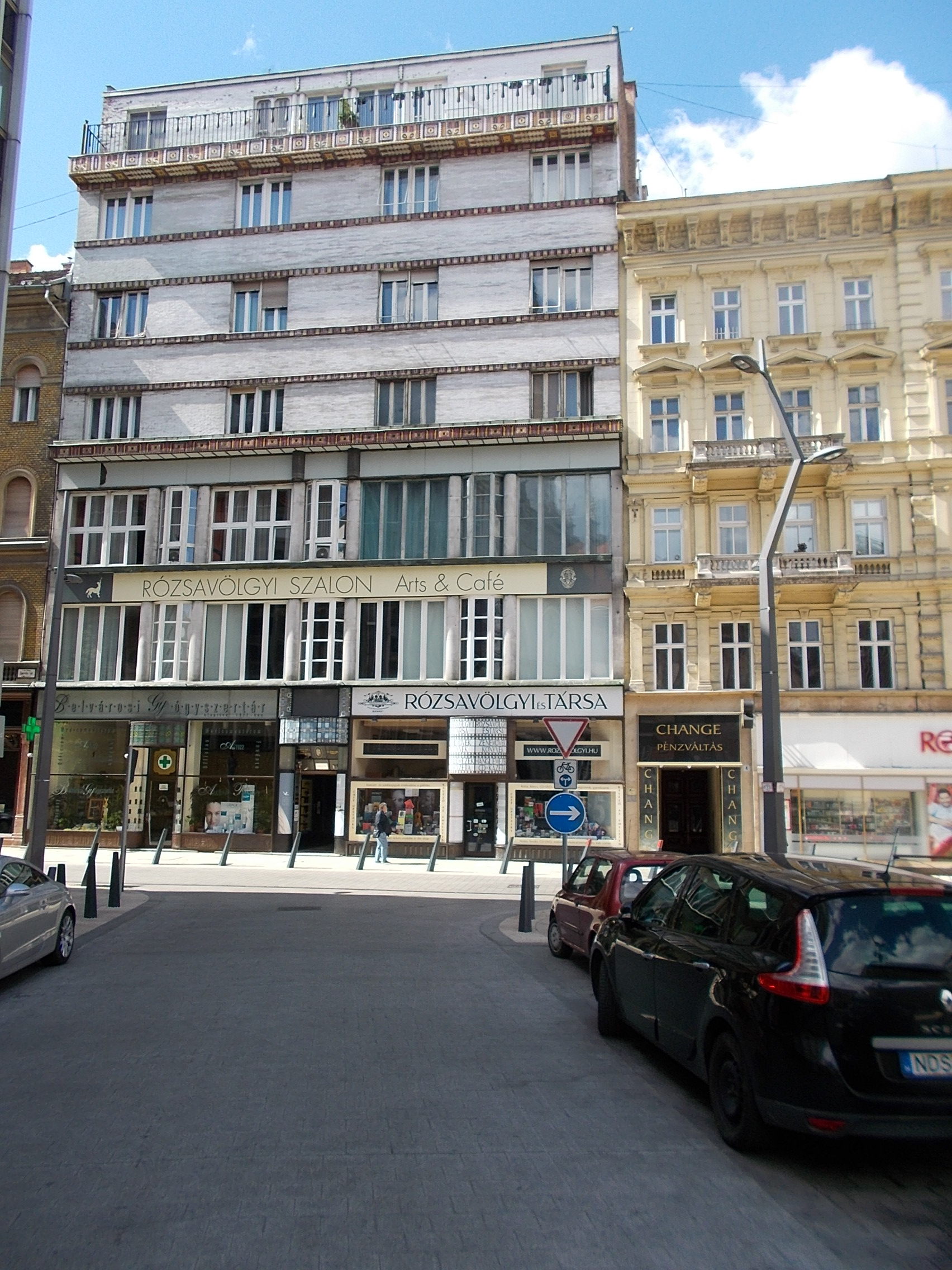 Office and dwelling building planned by Béla Lajta, 1911. - 5 Szervita Square, Inner City neighbourhood, Belváros-Lipótváros district, Budapest, Hungary.